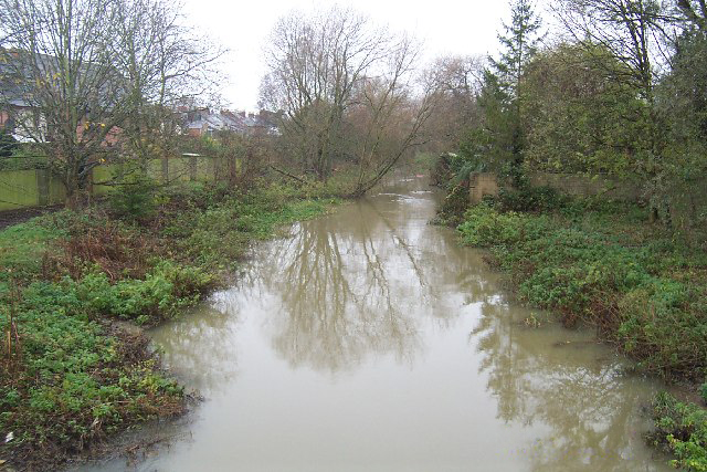 Oxford: Bulstake Stream, New Botley. Viewed looking upstream and northwards from the footbridge in the park.